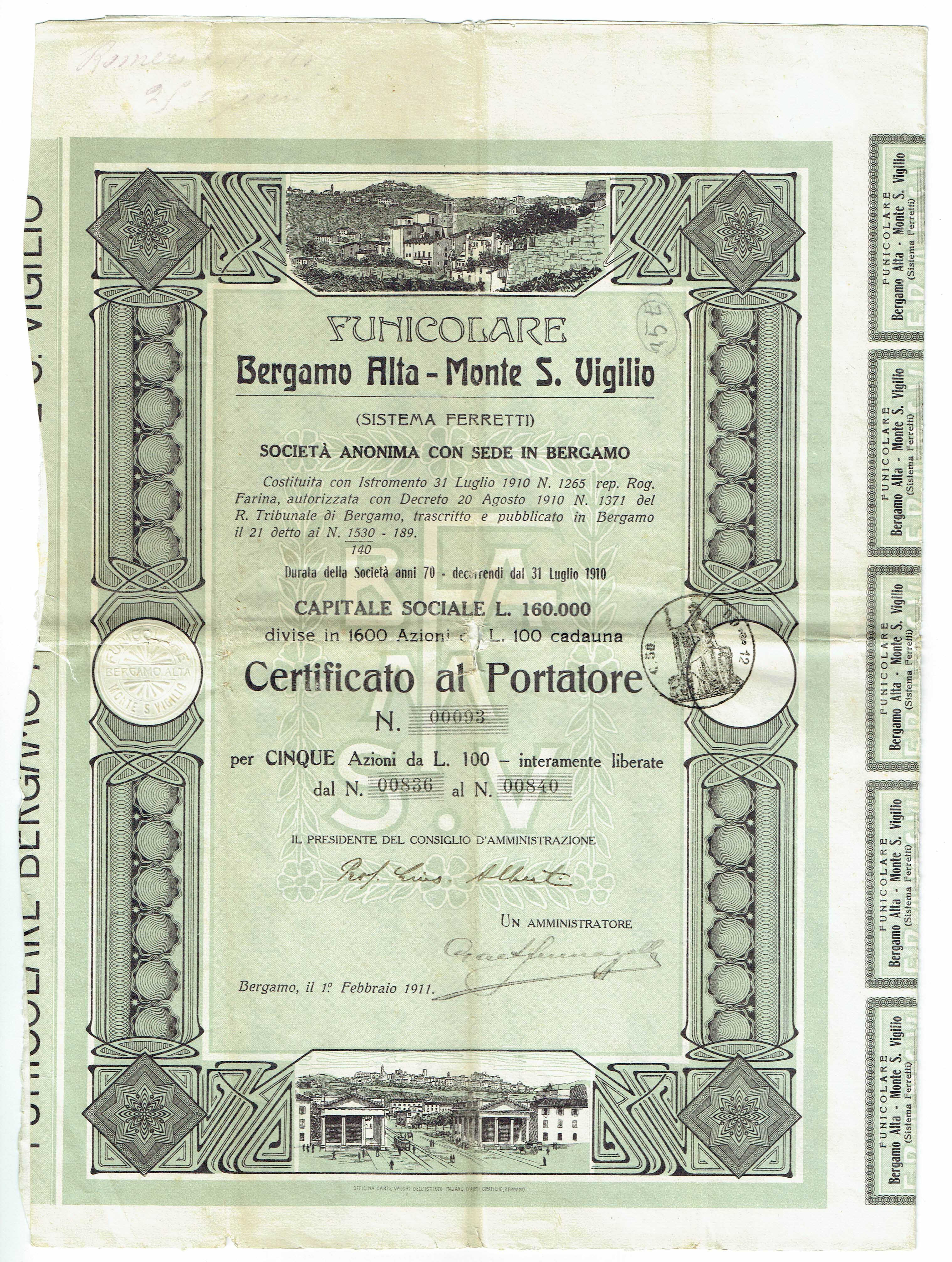 Share of the company Funicolare Bergamo Alta - Monte S. Vigilio, issued 1. February 1911